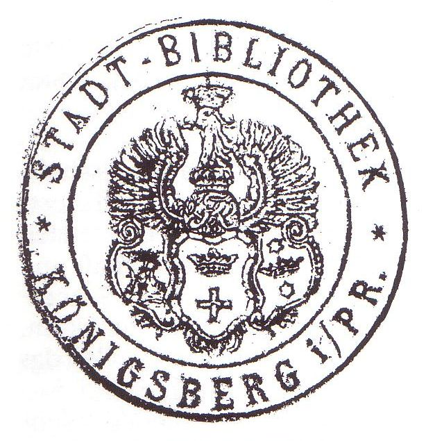 Seal of the city library of Königsberg